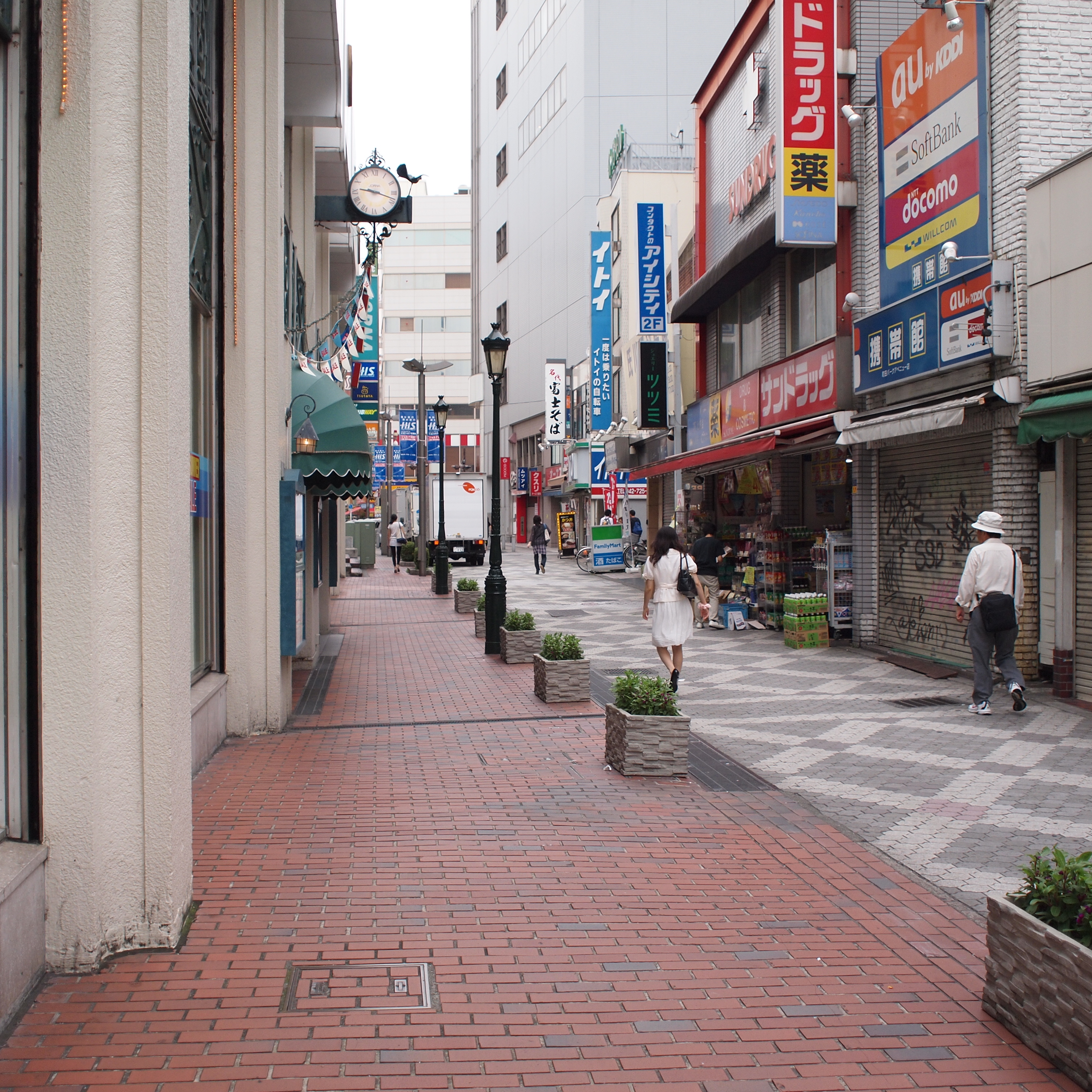 A Street Of Machida